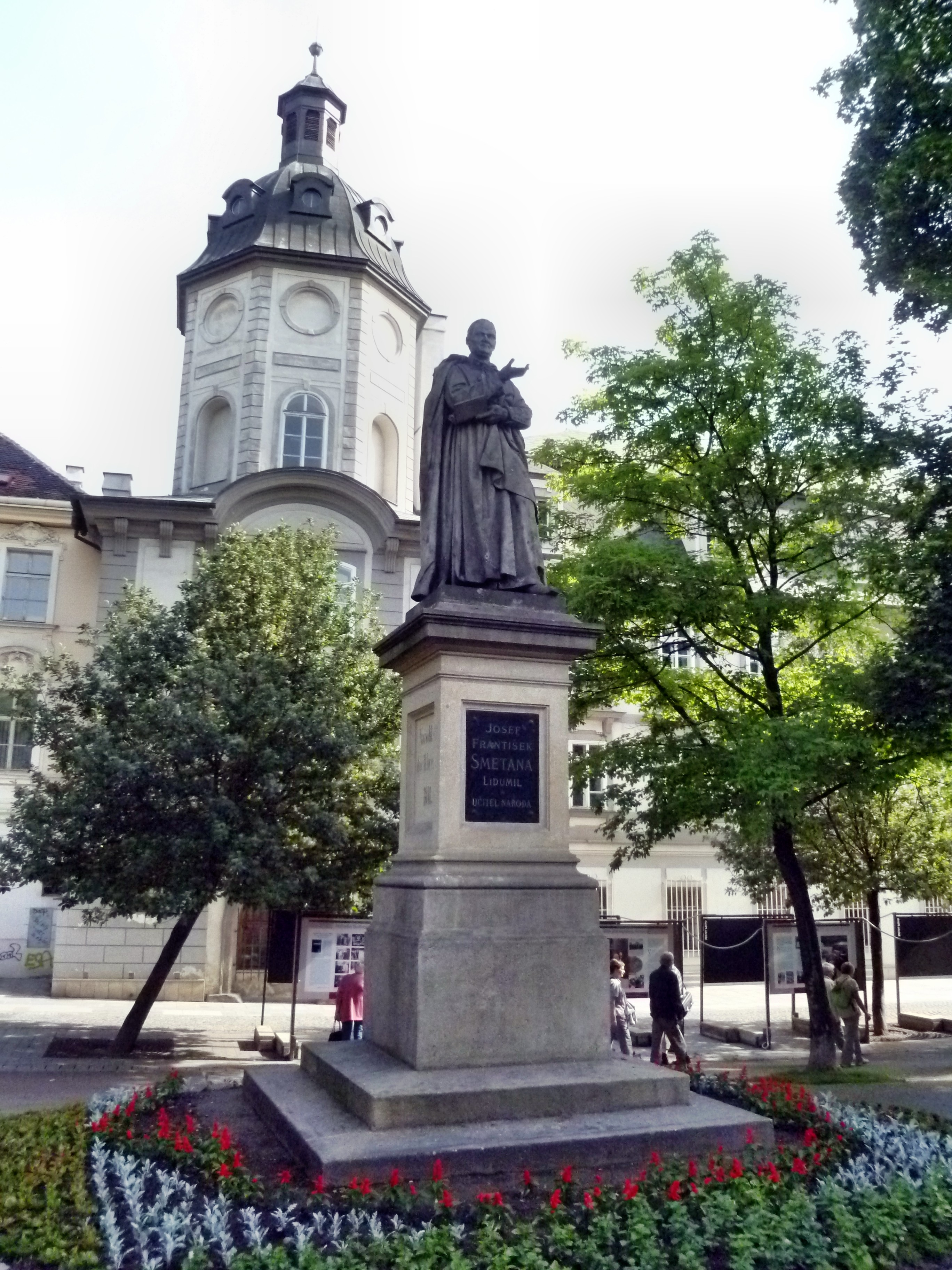 Statue (1874) of Josef František Smetana (1801-1861), Czech man of letters, philanthropist and revivalist of the Czech nation; Plzen, Czech republic